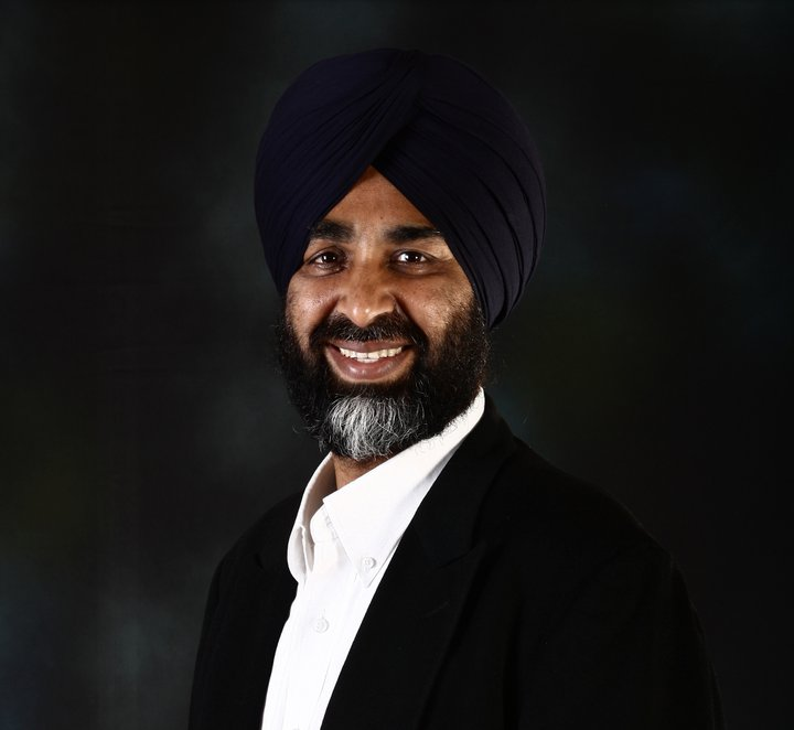 Founder of People's Party of Punjab